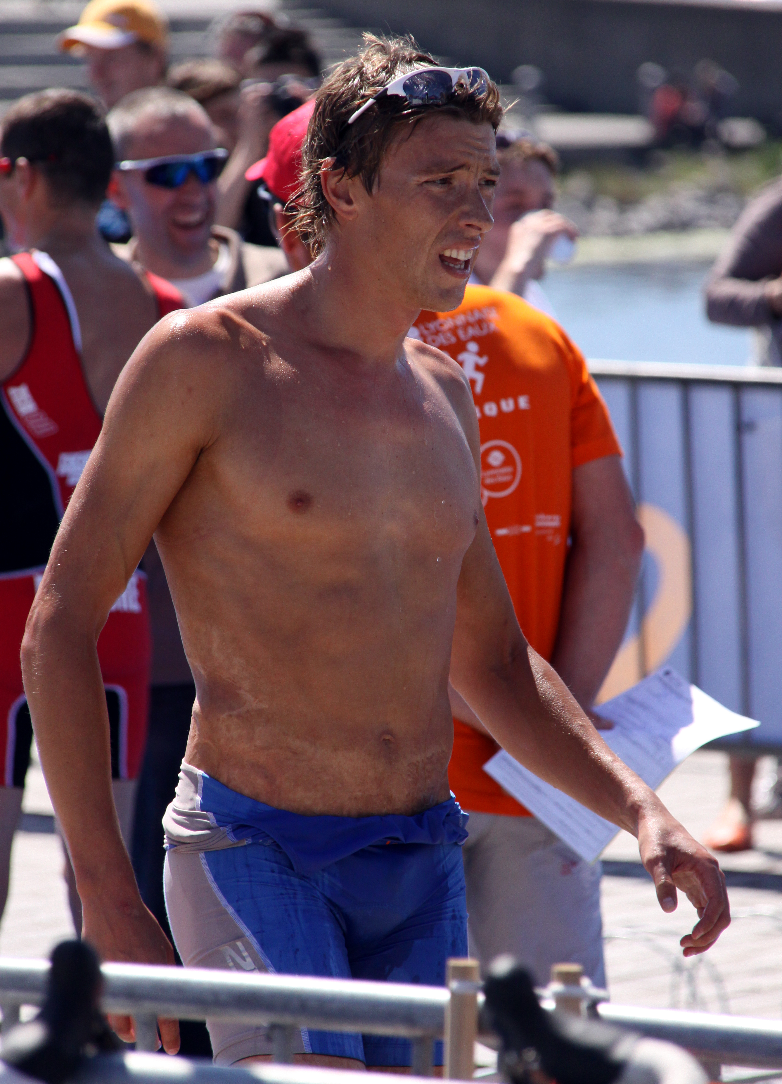 Igor Sysoev (Sysoyev) at the Triathlon of Dunkerque 2010